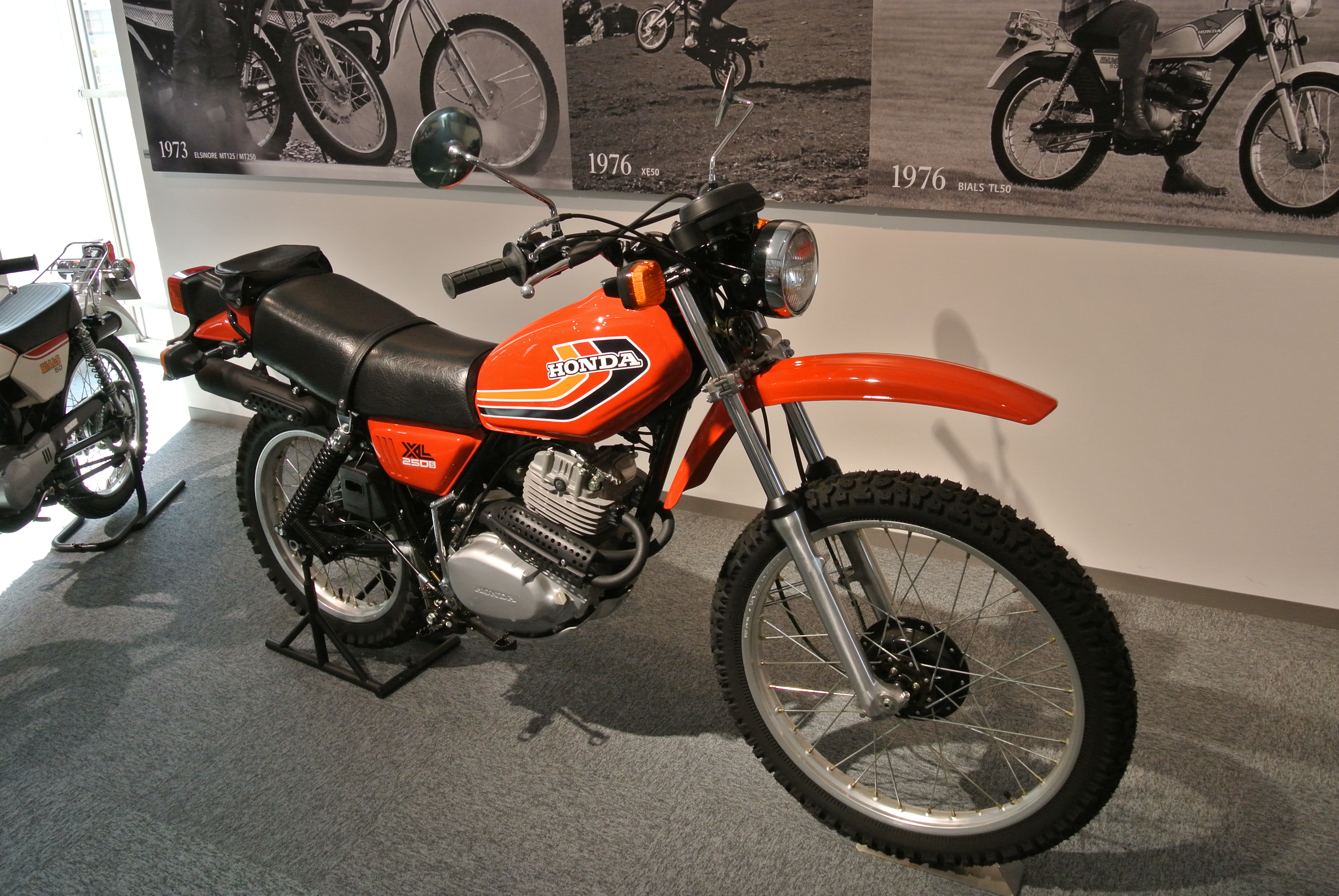 1976 XL250S in the Honda Collection Hall.